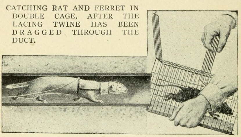 Rat bolting with a muzzled ferret